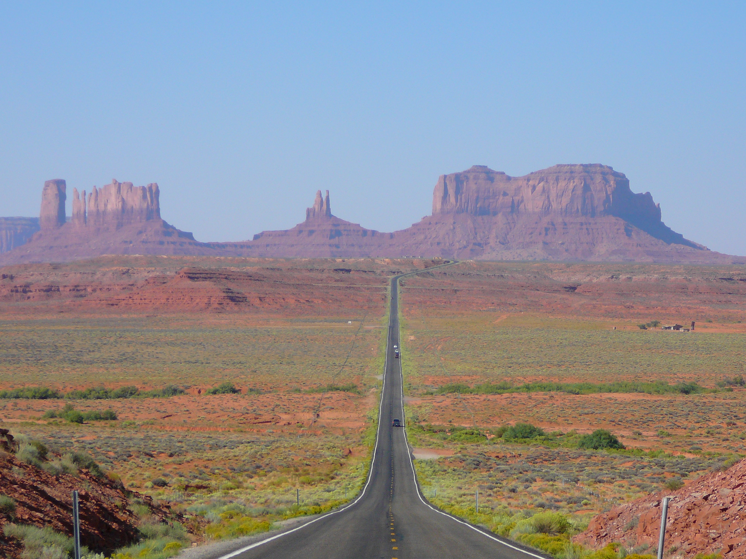 Digital photo taken by Marc Averette. View of Monument Valley in Utah, looking south on highway 163 from 13 miles north of the Arizona/Utah State line. Category:Rock formations in Utah